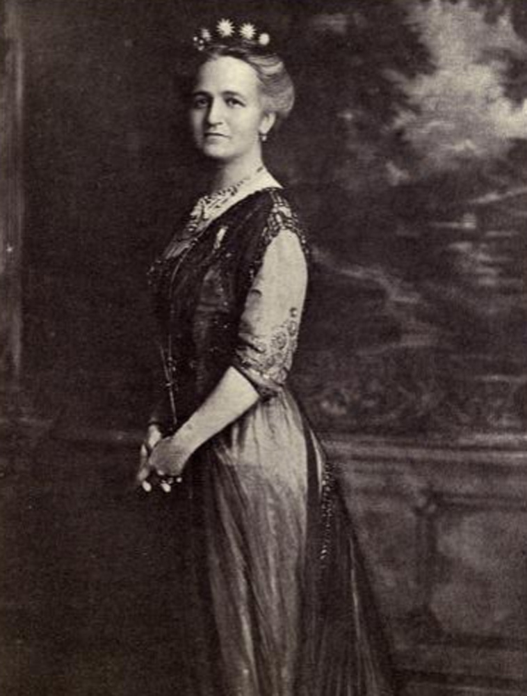 Rosalie Selfridge, wife of Harry Gordon Sefridge circa 1910